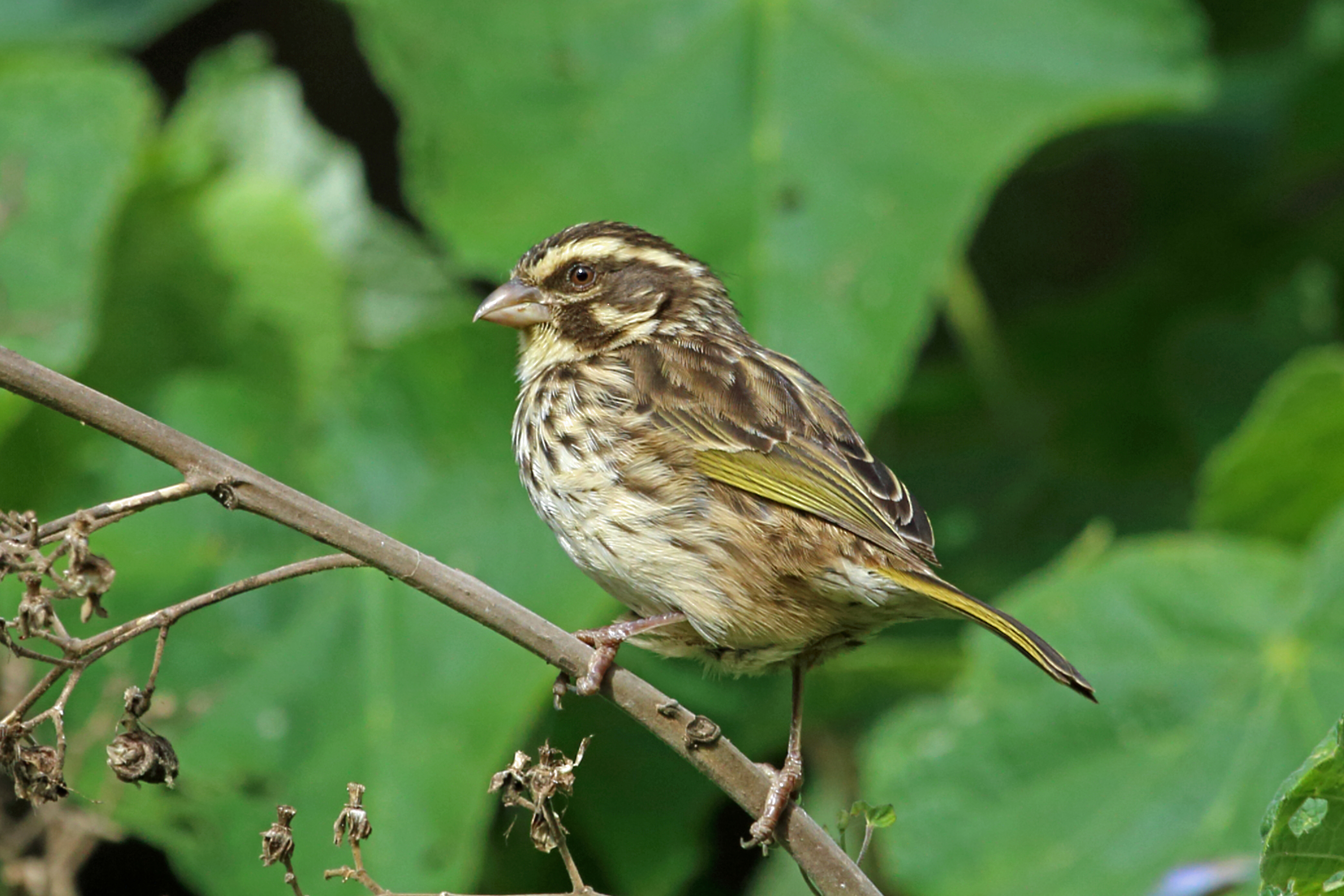 Streaky Seedeater, Ngorongoro Crater